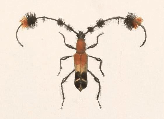 Biologia Centrali-Americana - Cosmisoma titania Cut-out from original (BCA - Coleoptera Vol 5 Tab 5.JPG) shown below